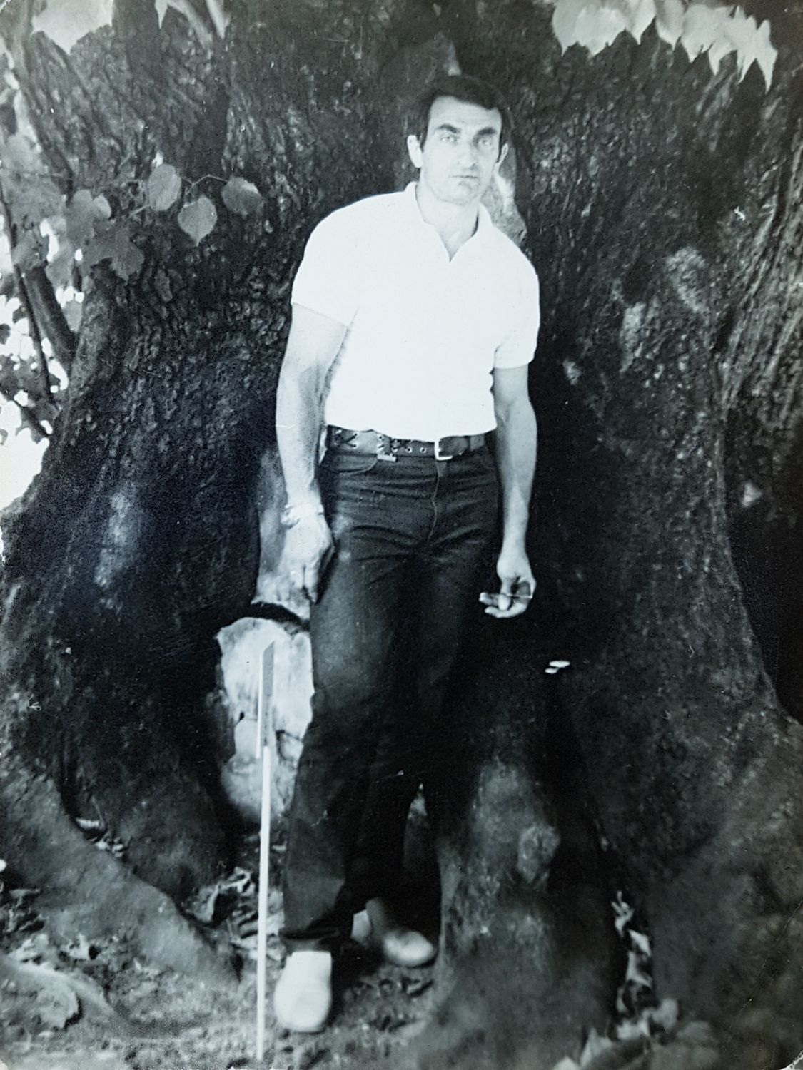 Yefim Chulak in Japan